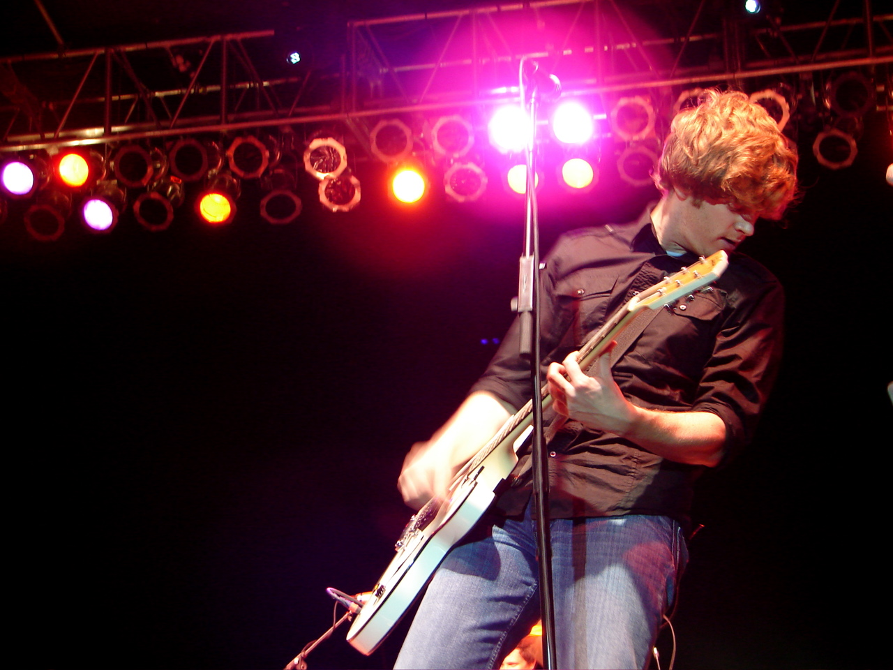 Relient K performs at Purple Door 2007.